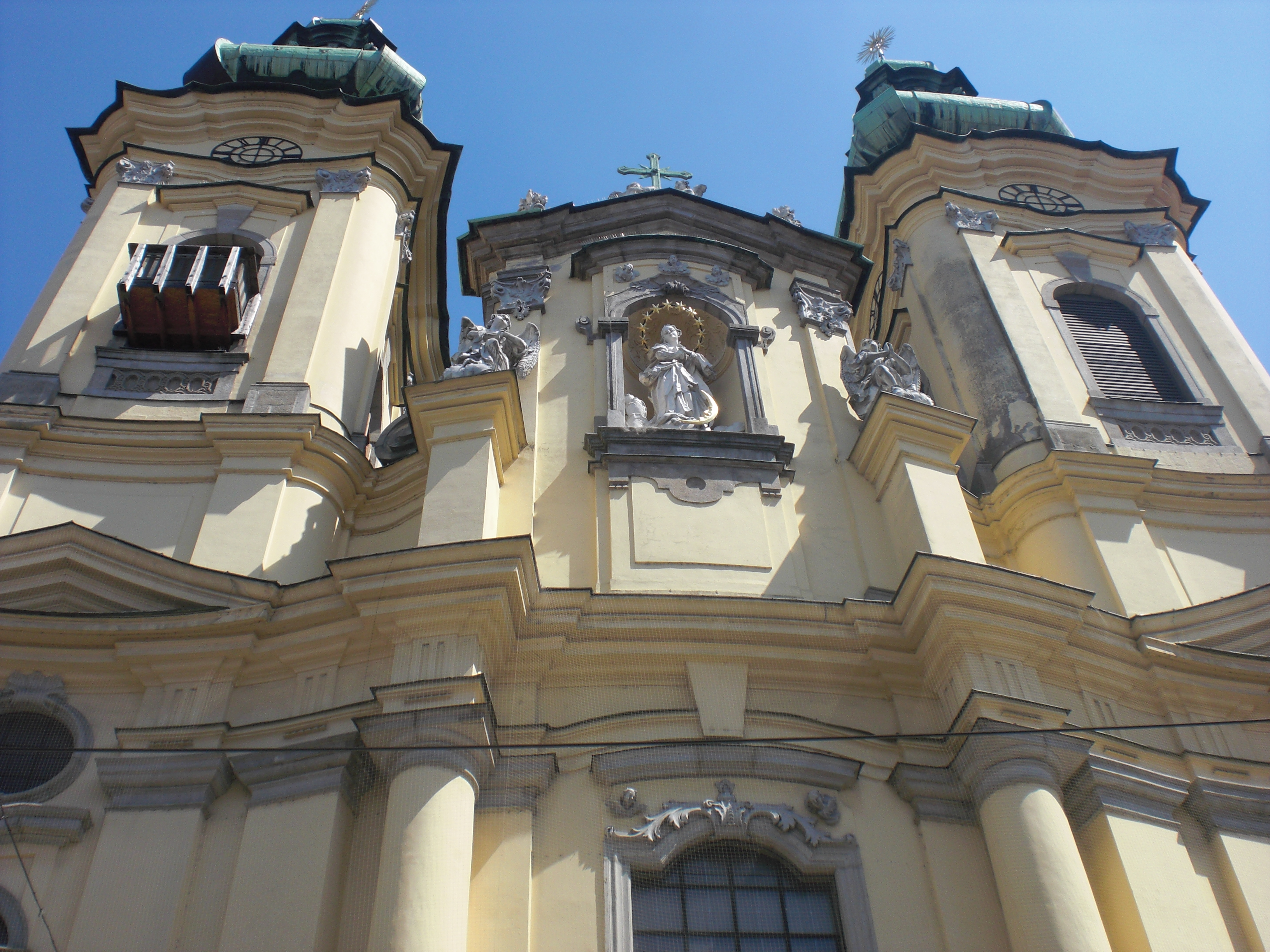 Ursuline Church, Linz